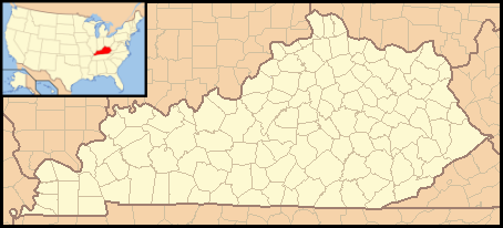 Locator Map of Kentucky, United States